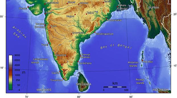 This map shows Coastal India which spans from the south west Indian coastline along the Arabian sea from the coastline of the Gulf of Kutch in its western most corner and stretches across the Gulf of Khambhat, and through the Salsette Island of mumbai along the Konkan and southwards across the Raigad region and through Kanara and further down through Mangalapuram or Mangalore and along the Malabar through Cape Comorin in the southernmost region of South India with coastline along the Indian Ocean and through the Coromandal Coast or Cholamandalam Coastline on the South Eastern Coastline of the Indian Subcontinent along the Bay of Bengal through the Utkala Kalinga region until the Easternmost Corner of shoreline near the Sunderbans in Coastal East India.